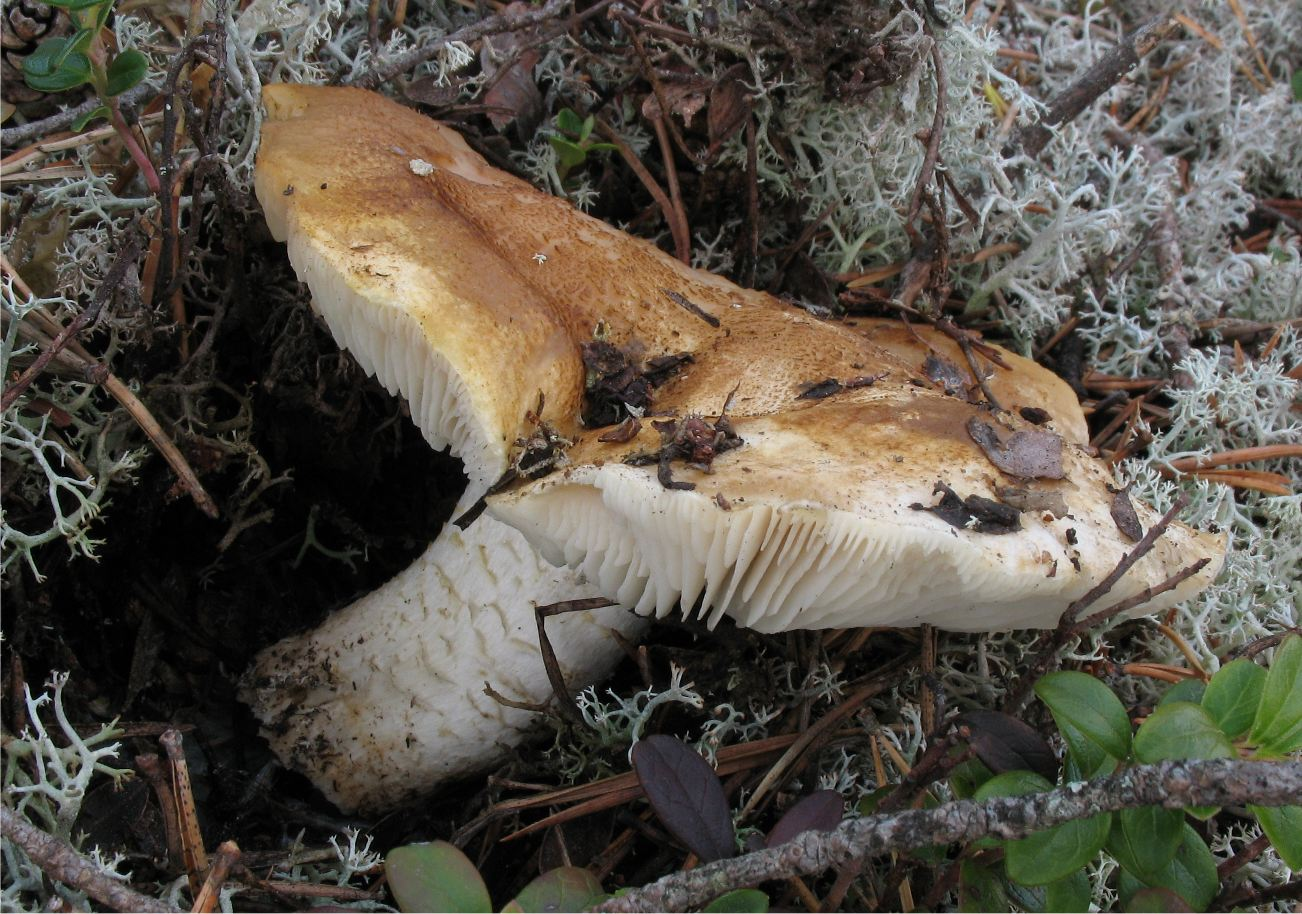 A fruit body of the agaric fungus Tricholoma apium Jul. Schäff. Photographed in Nordmaling, Ångermanland, Sweden.